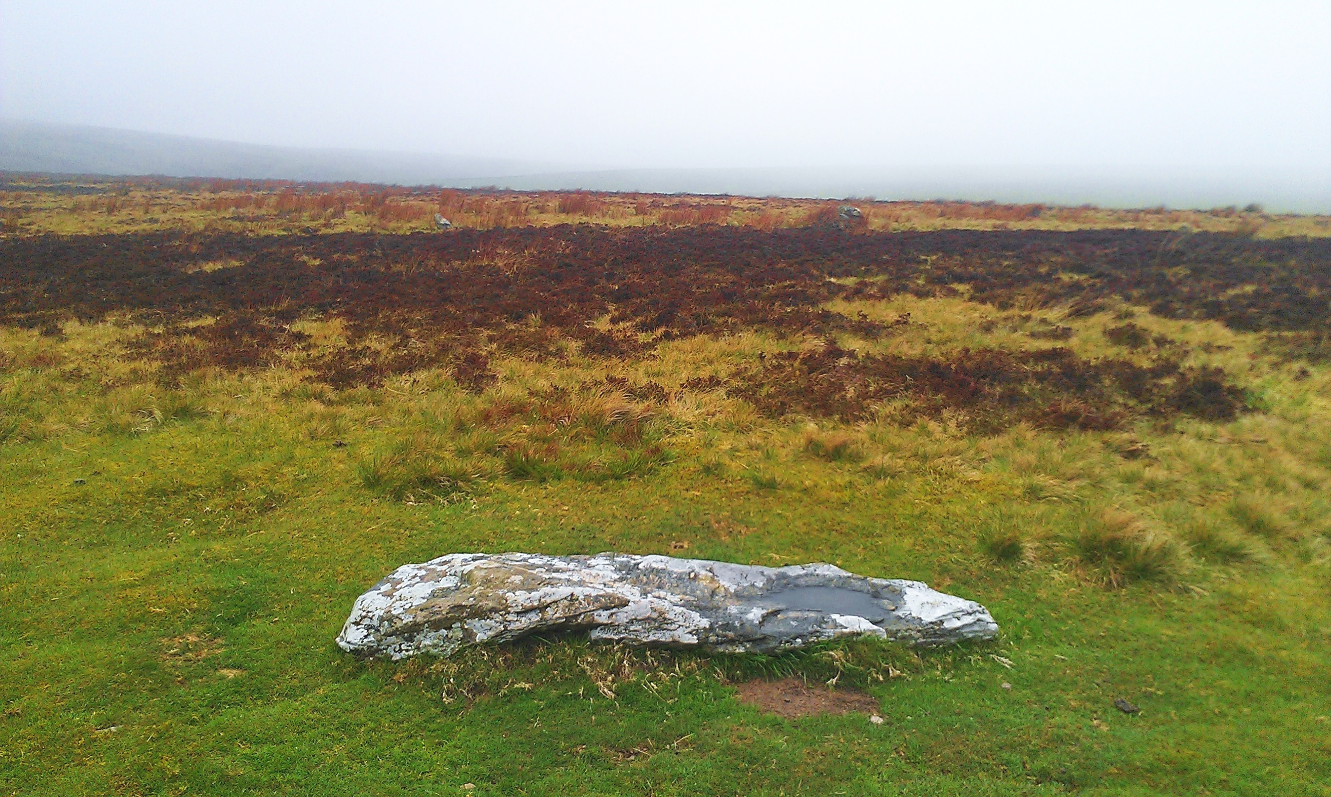 Detail of Porlock stone circle, a Late Neolithic/Early Bronze Age ritual monument in Exmoor, Somerset.